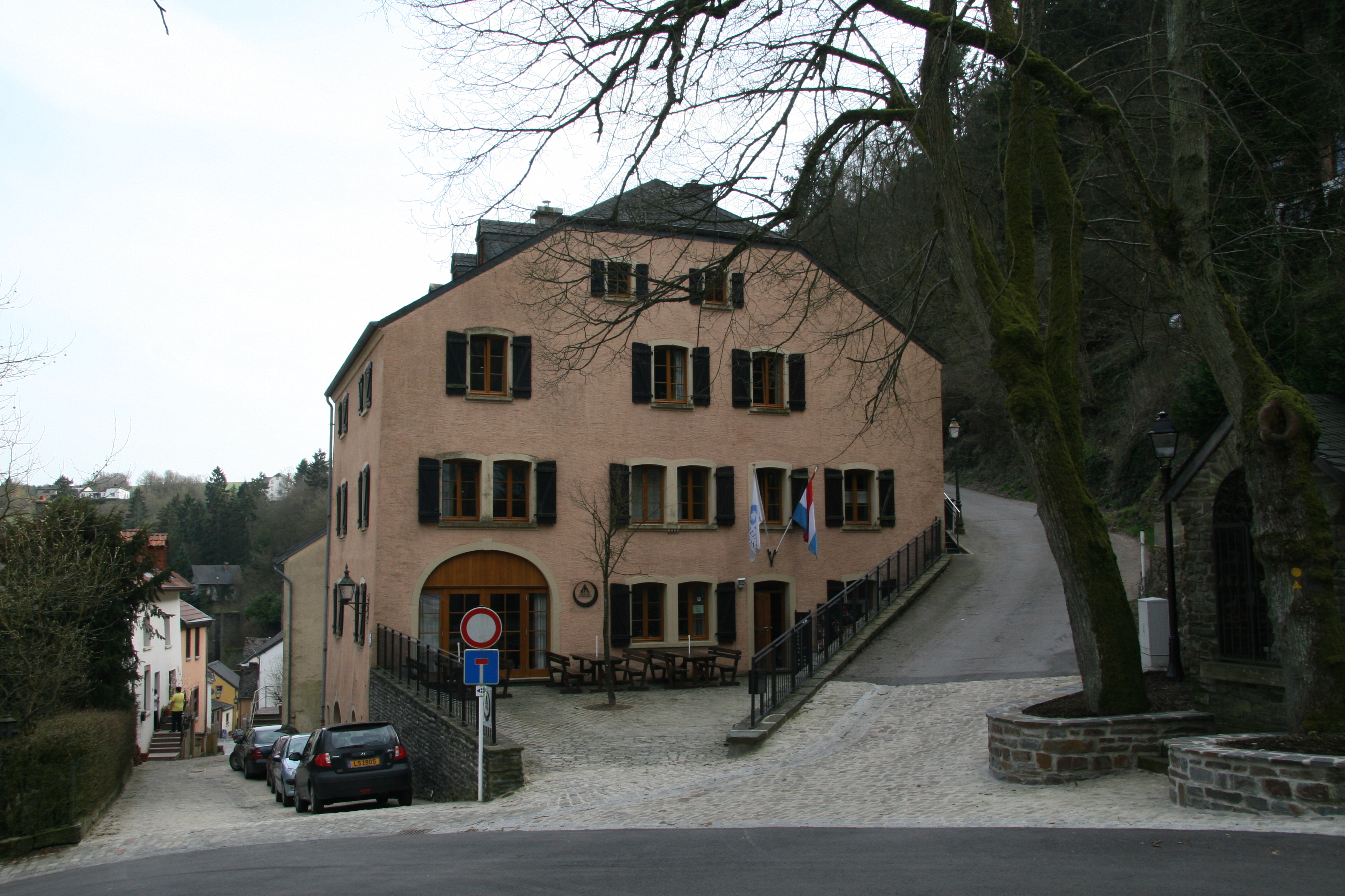 The youth hostel in Vianden, Luxembourg